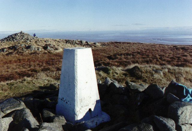 Trig point and Douglas's Cairn, Criffel